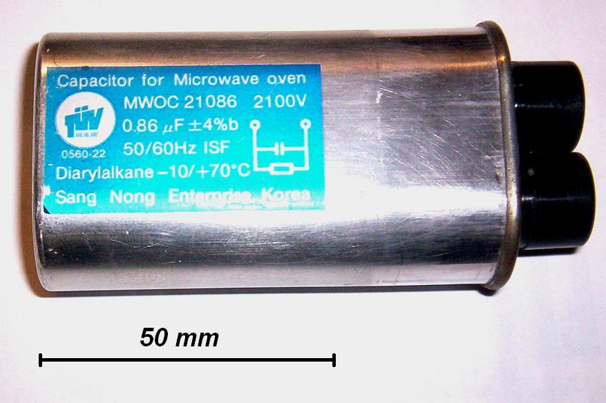 Power capacitor with built-in bleeder resistor.